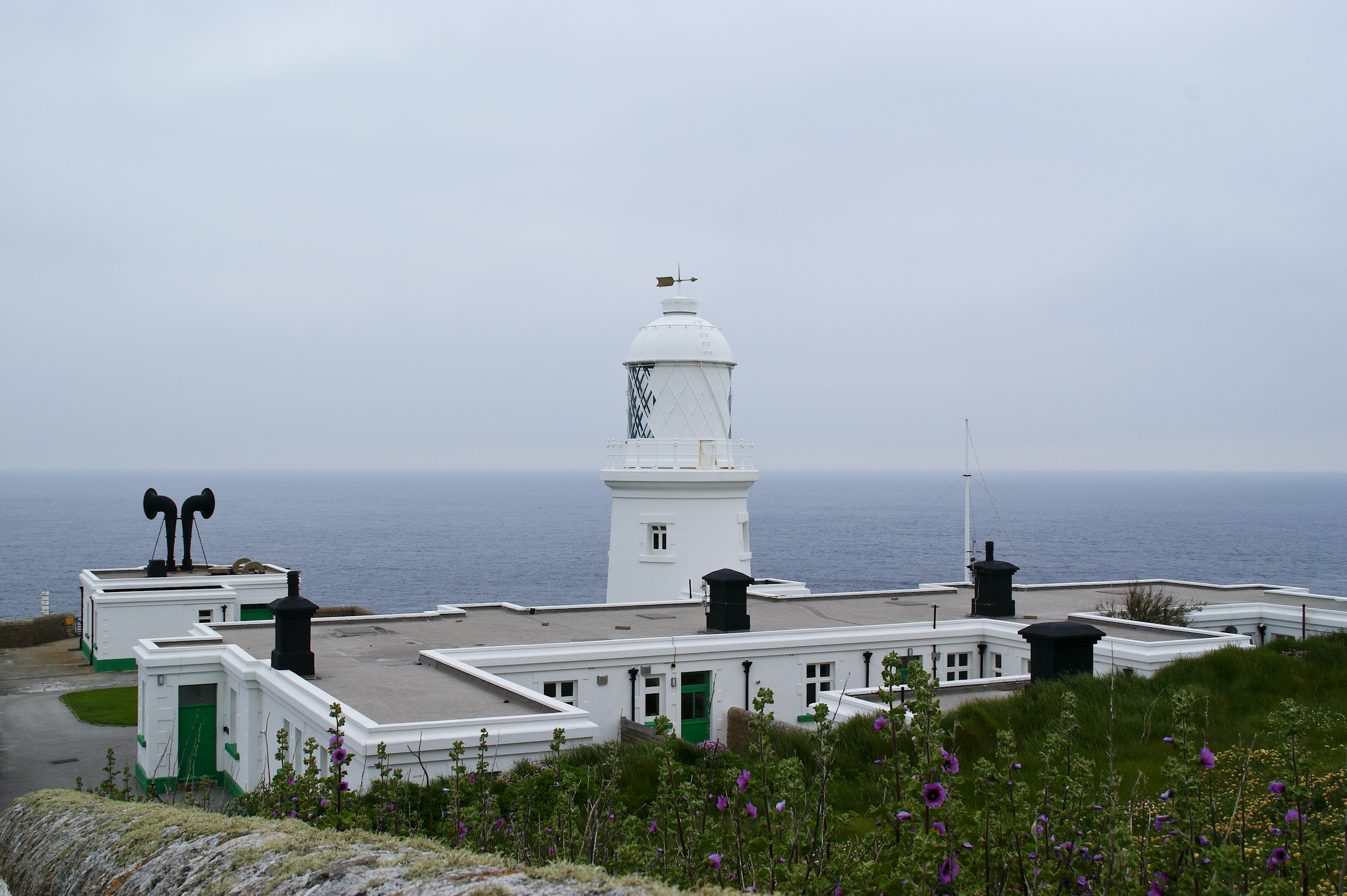 Pendeen lighthouse in Cornwall, UK.